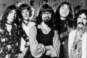 Pulsar photo